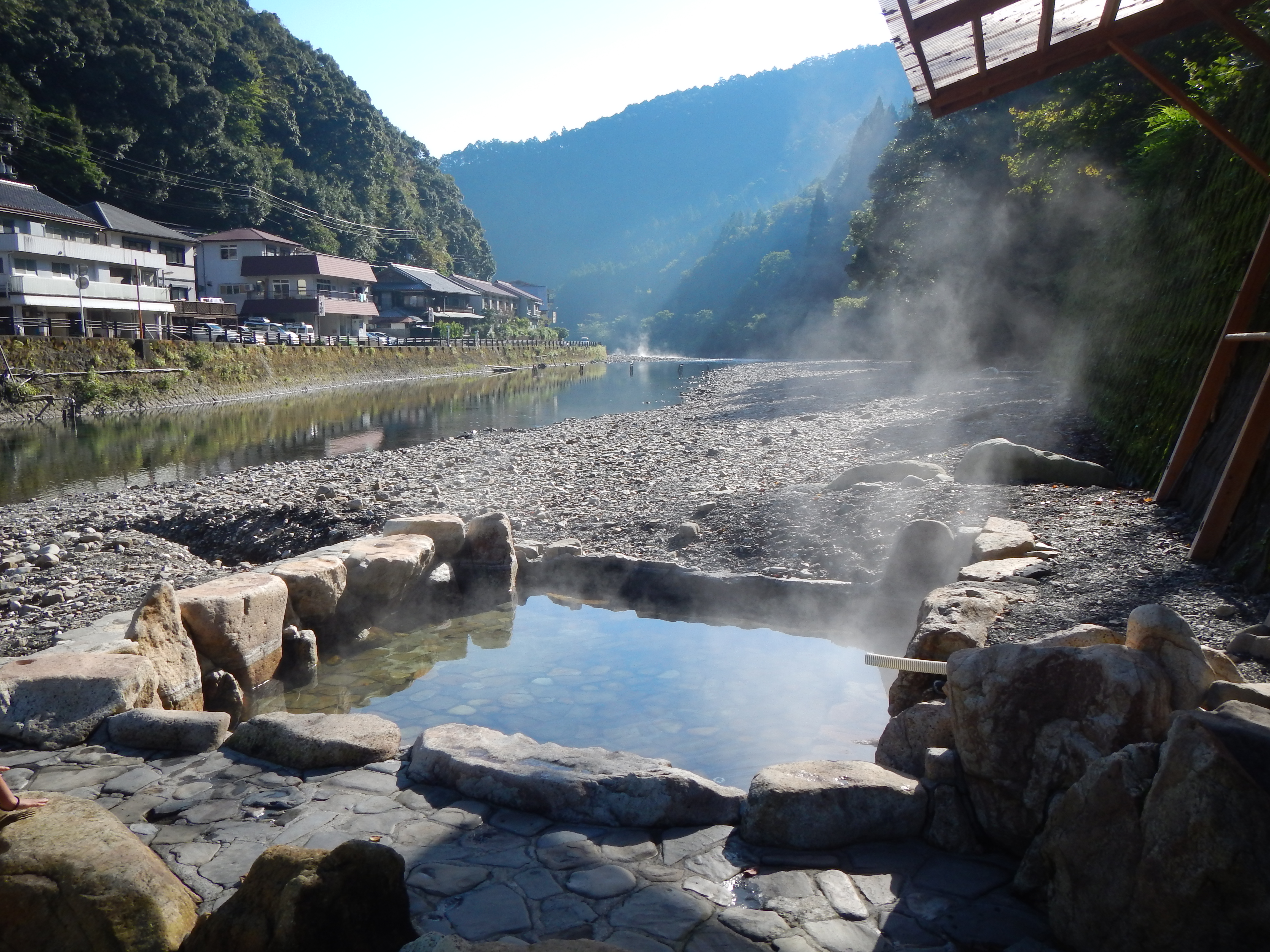 kawayu onsen1